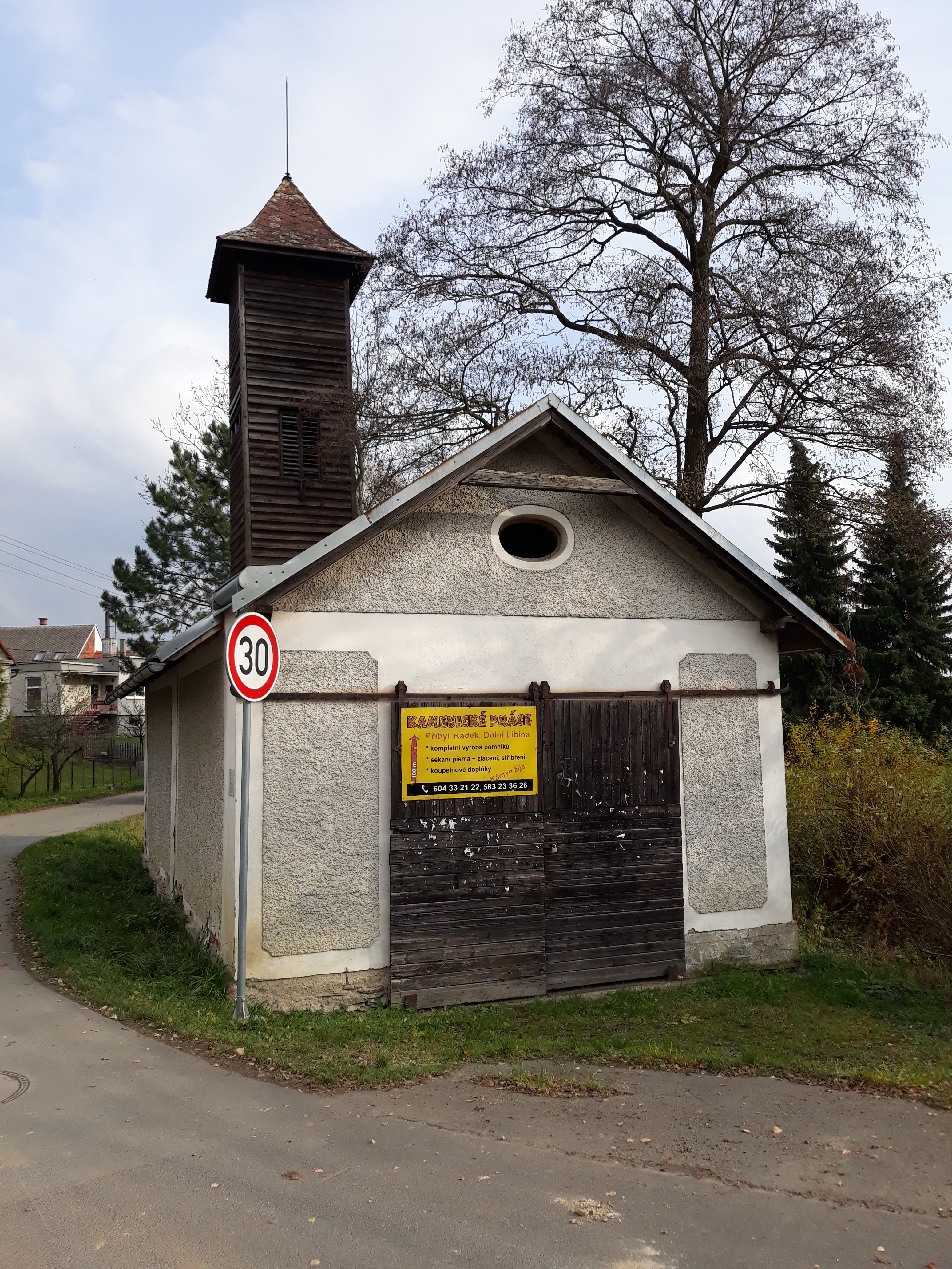 Stará hasičská zbrojnice SDH Dolní Libina